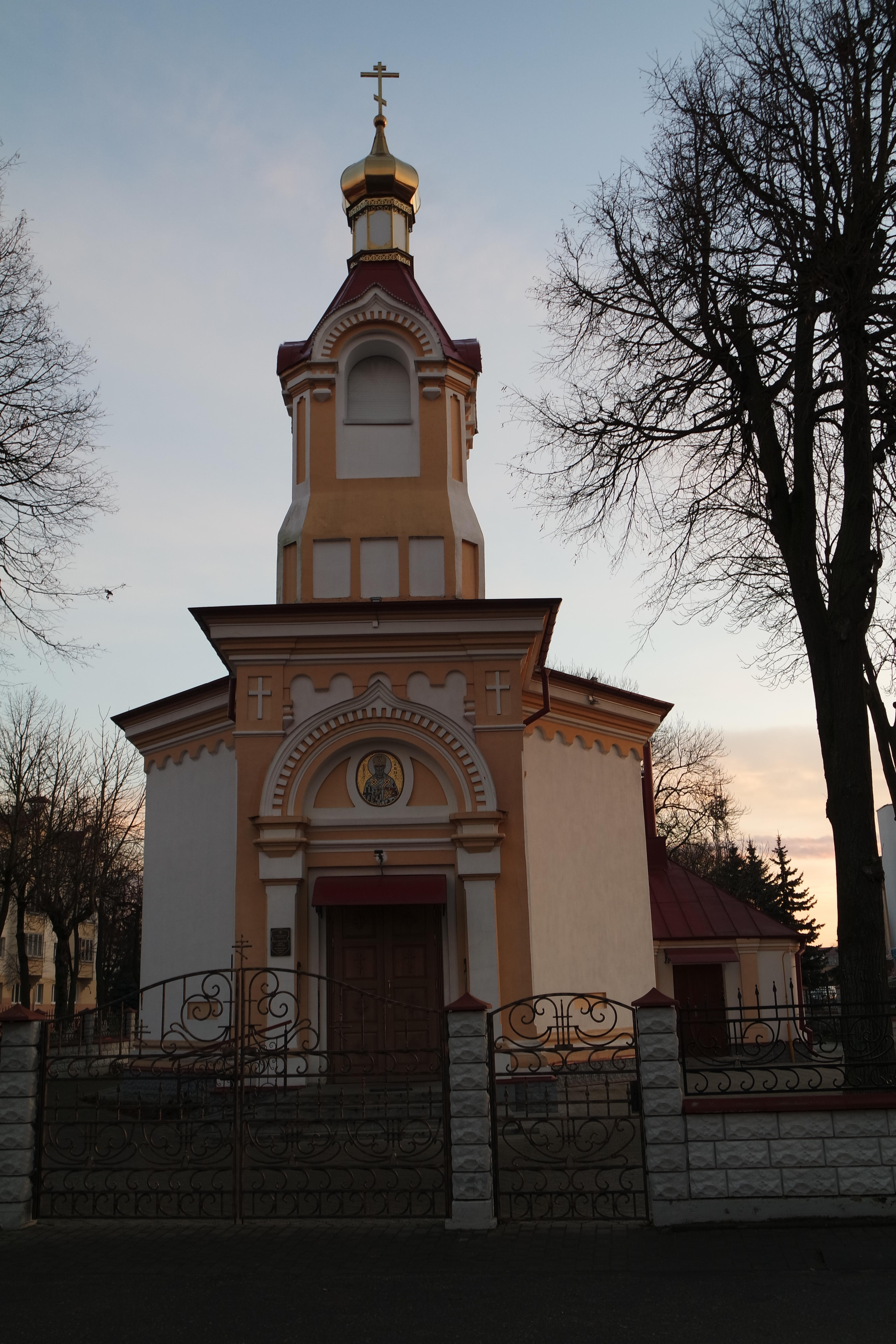 Church of Saint Nicholas. Vawkavysk, Belarus. Беларуская (тарашкевіца): Царква Сьвятога Мікалая. Ваўкавыск, Беларусь.